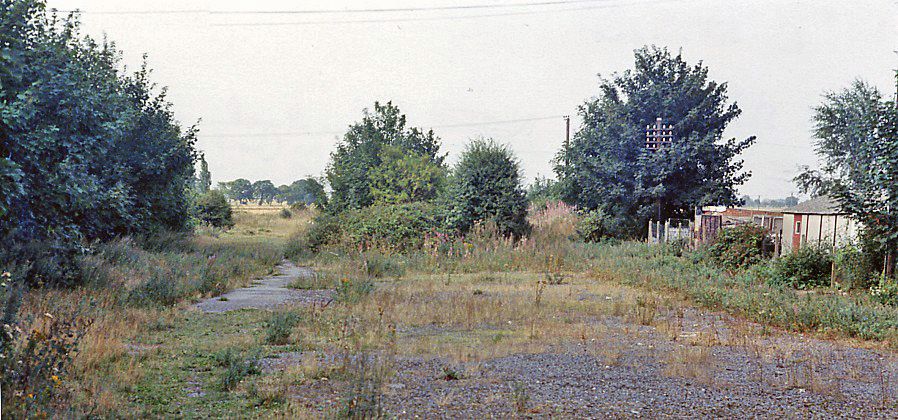 Site of Crowle (Isle of Axholme Light Railway) station. View northward, towards Goole: former Isle of Axholme Light Railway (NE & L&Y Joint), which ran from Goole to Fockerby and to Haxey, Crowle being on the Haxey line. The line lost its passenger service from 15/7/33, but goods continued until 5/4/65. There was little trace here in 1983.